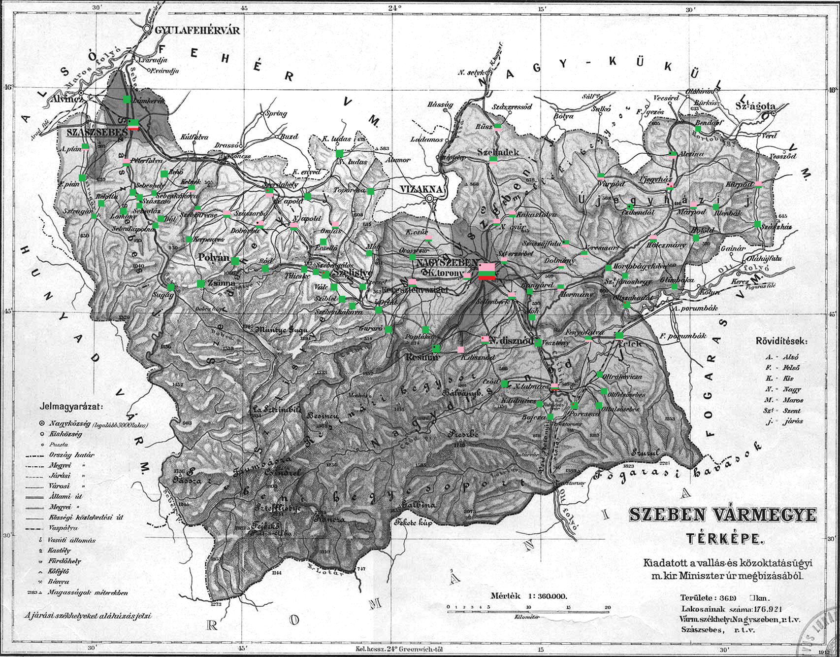 Ethnic map of the county (with data of the 1910 census). Key: dark green - Romanians; pink - Germans; red - Hungarians; black - Roma; violet - Ruthenians. Coloured dots in plain rectangles imply the presence of smaller minority populations (generally more than 100 people or 10%). Multicoloured rectangles imply cities and villages with multi-ethnic populations with the order of the stripes following the ethnic composition of the settlement.